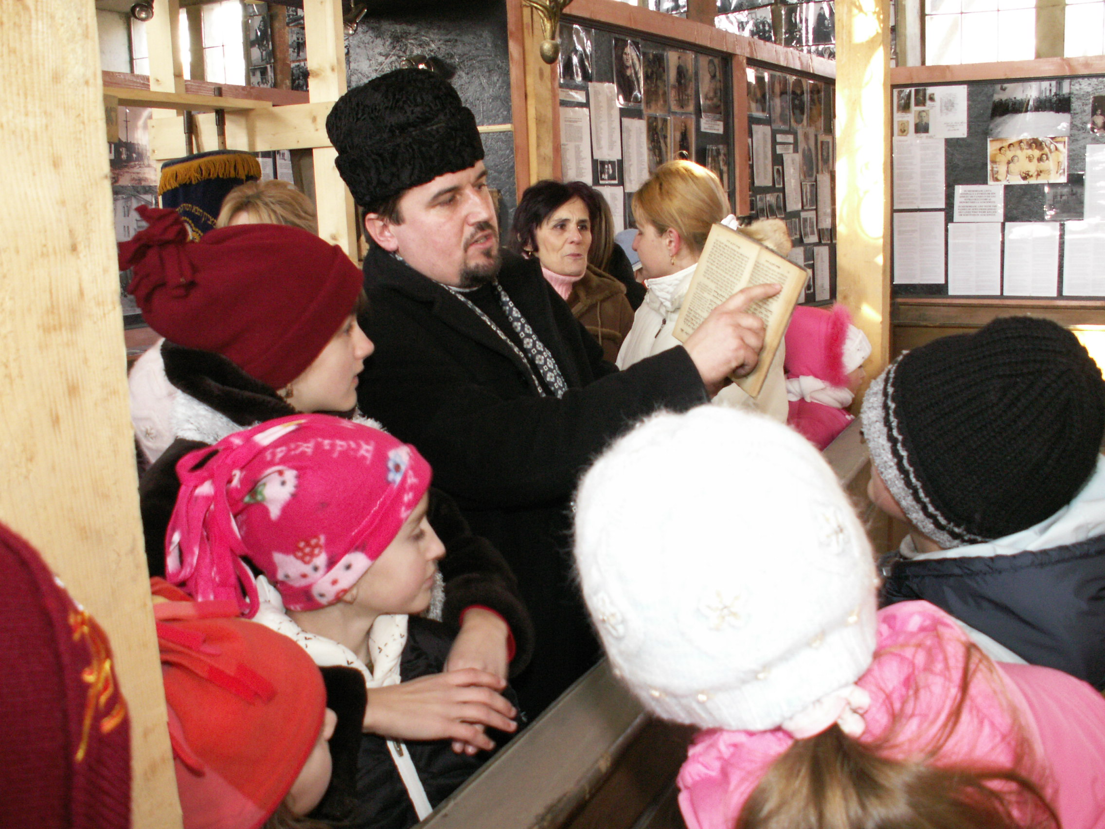 Local Schoolteacher lecturing to his students in the Northern Transylvania Holocaust Memorial Museum